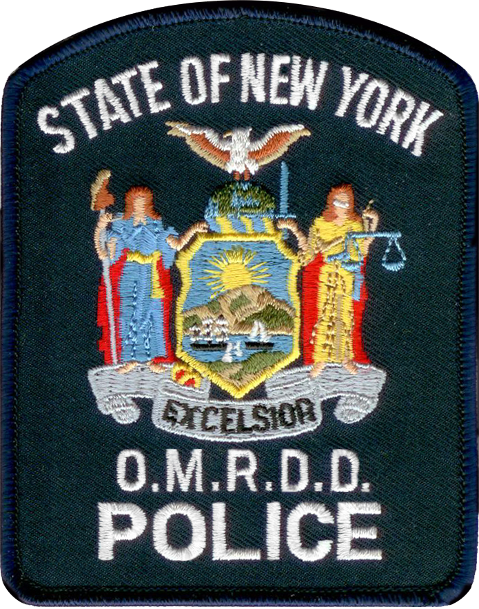 Image is similar if not identical to the shoulder patch of the New York State Office of Mental Retardation and Developmental Disabilities Police patch. Made with Photoshop.